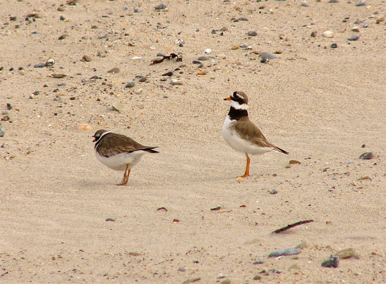 Ringed Plover